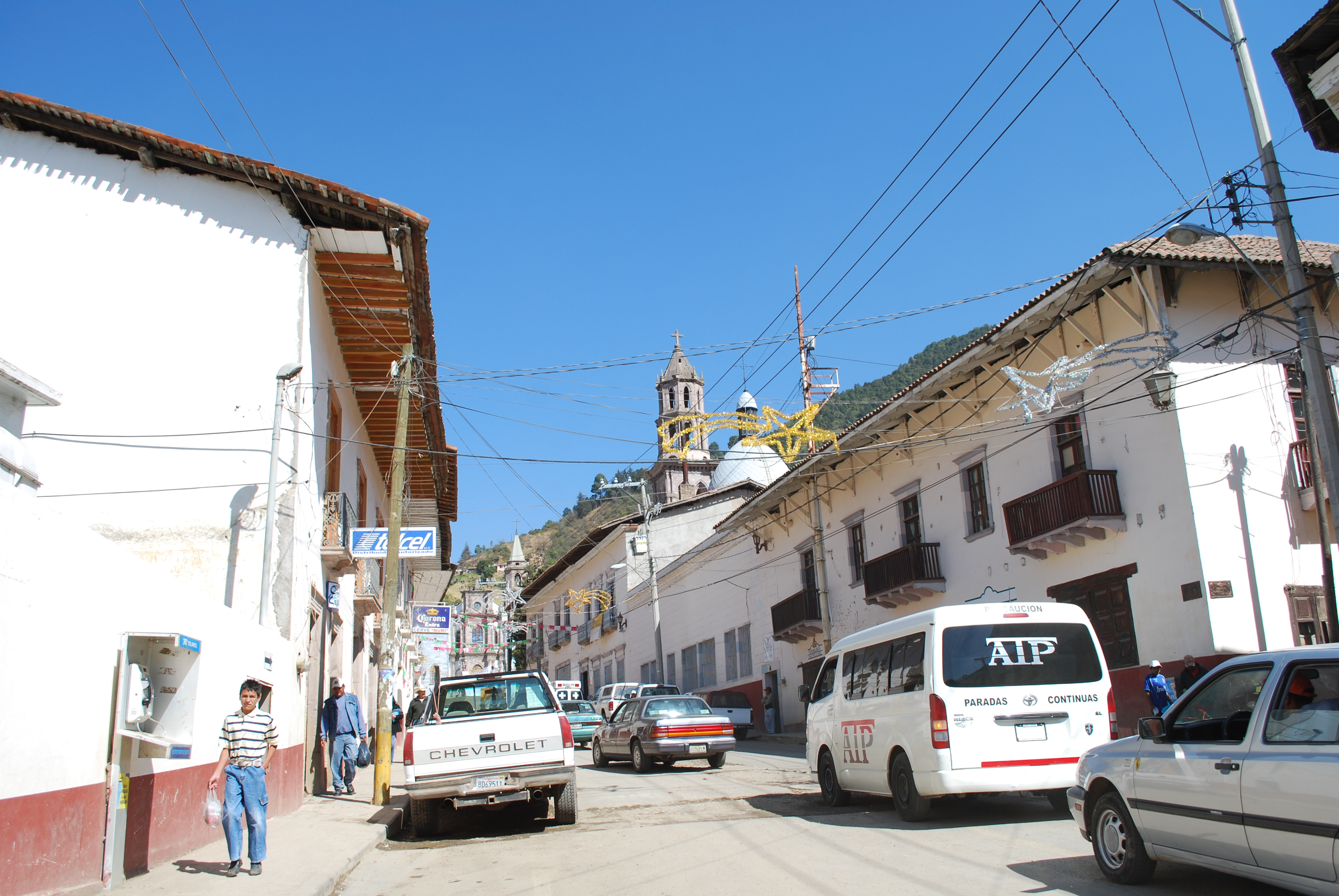 Main street Angangueo, Michoacan